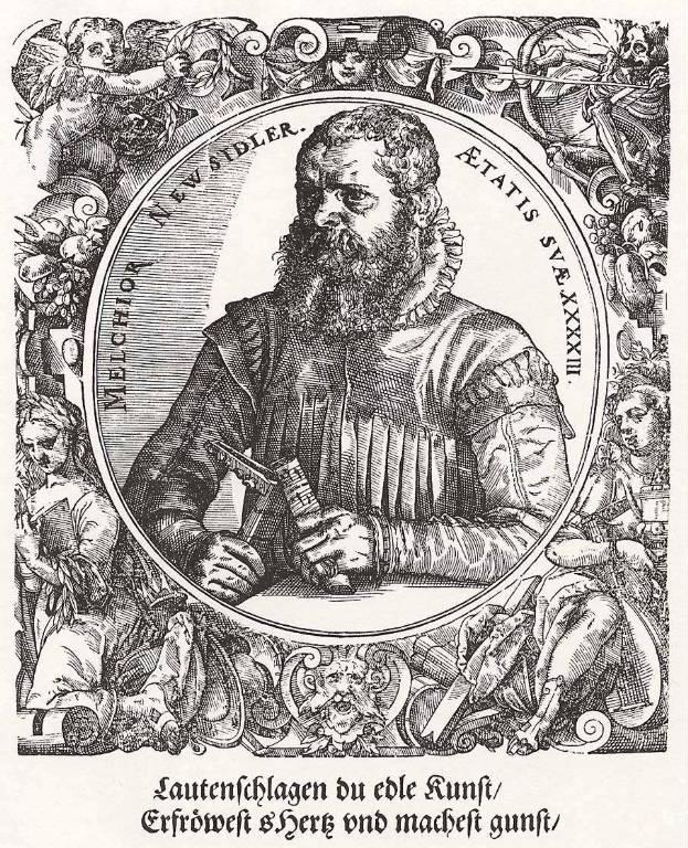 Melchior Neusidler(b. ca. 1531; d. ca. 1591, German lutenist, aged 43, woodcut from Teutsch Lautenbuch (1574)